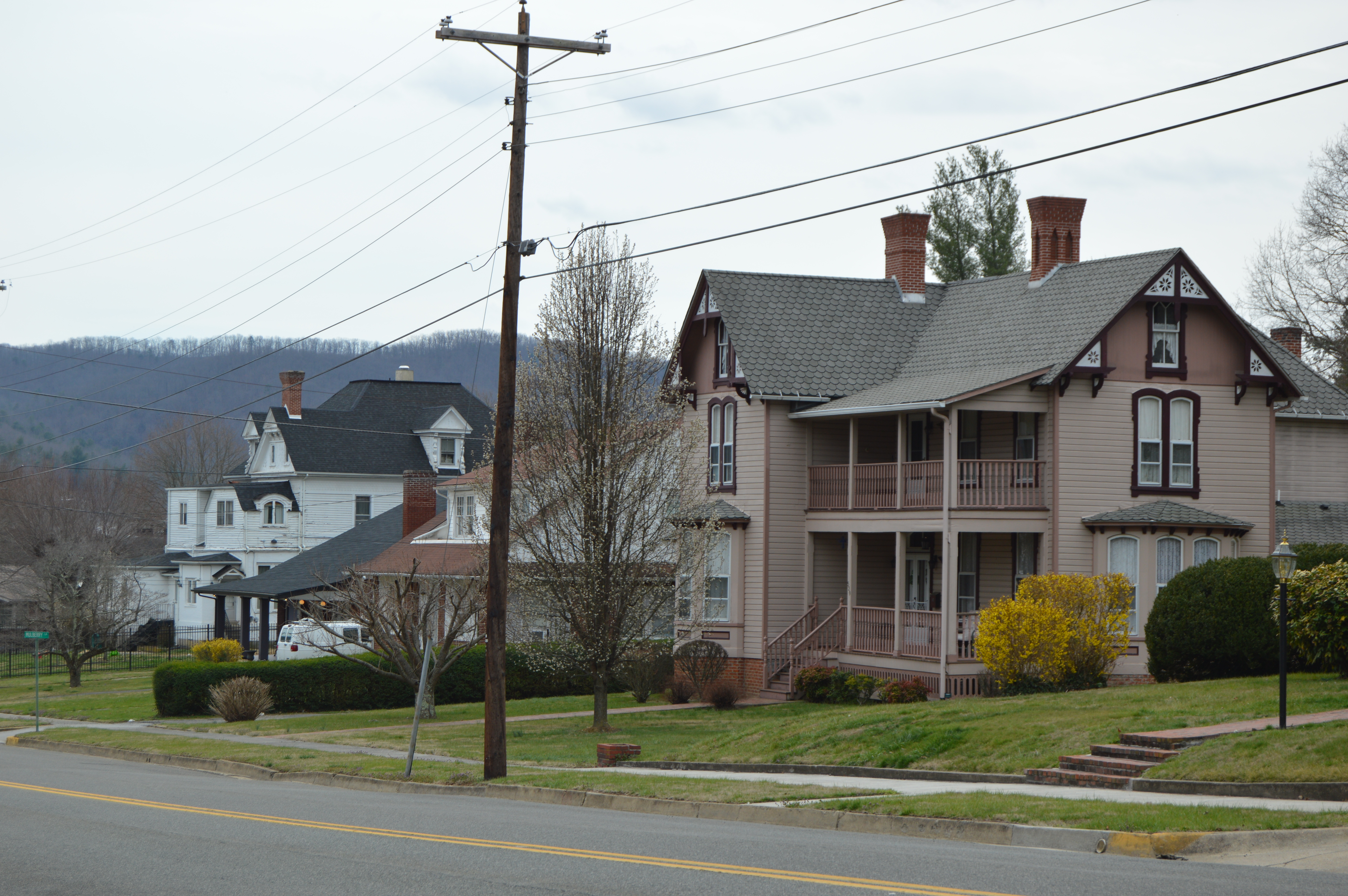 Houses on the western side of Jefferson Avenue, seen looking south from Sixth Street, in Pulaski, Virginia, United States. This block is part of the Pulaski Historic Residential District, a historic district that is listed on the National Register of Historic Places.